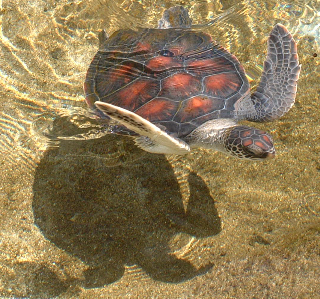 Young Honu-Kahala